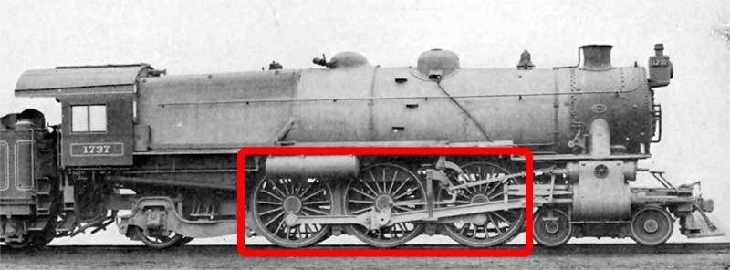 Highlighted driving wheels. Based on an image from the 1922 Locomotive Cyclopedia of American Practice which is now in the public domain.